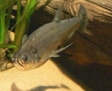 Hydrolycus sp. Author: User:Haplochromis